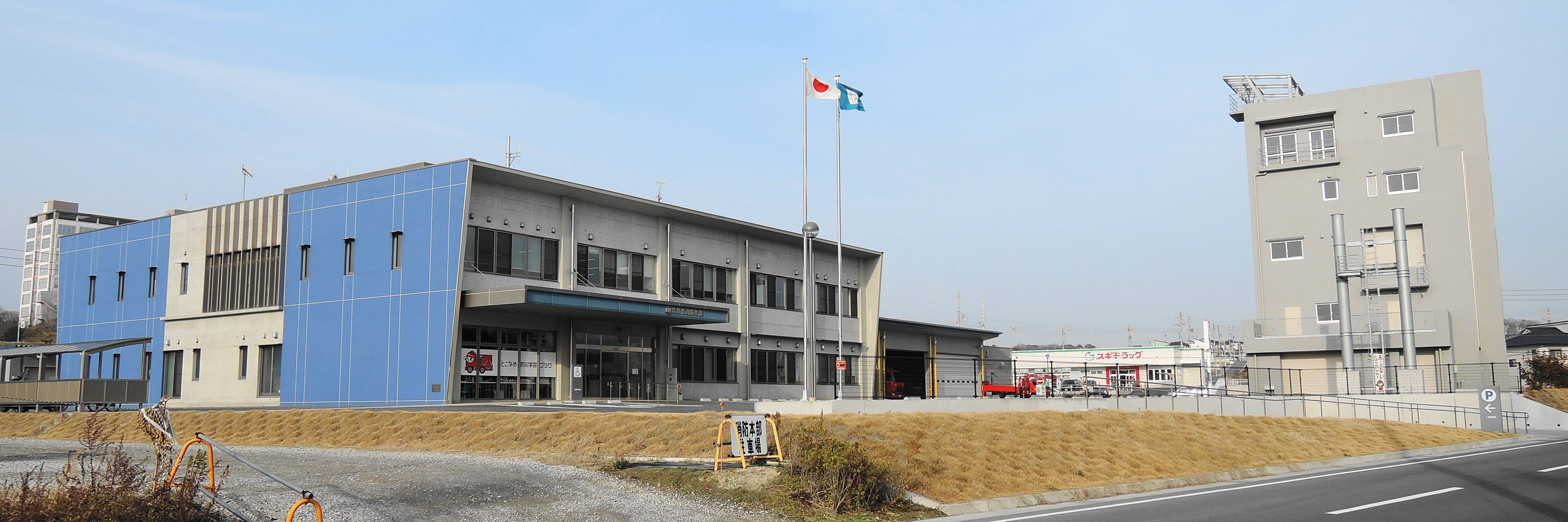 Tokoname Fire department,Aichi prefecture,Japan